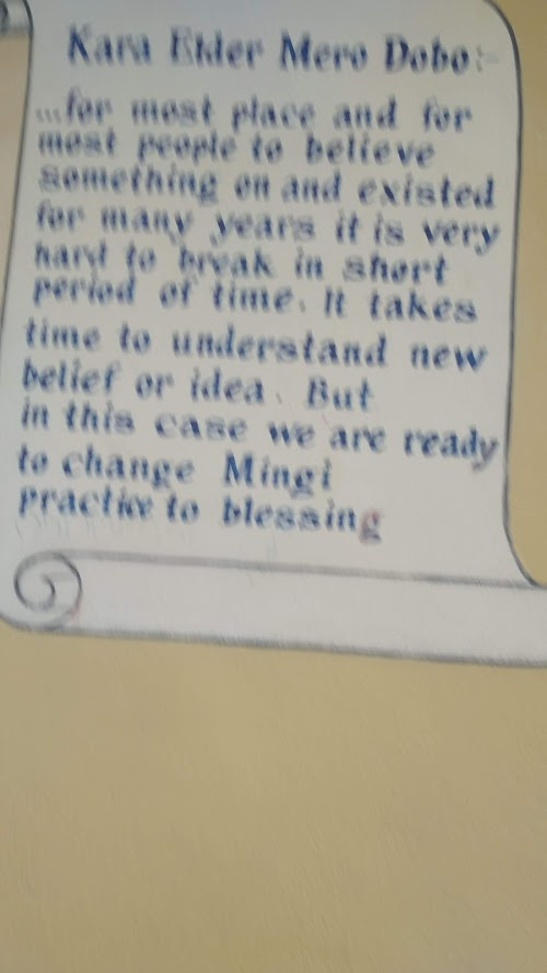 Text on a wall in mingi children orphanage